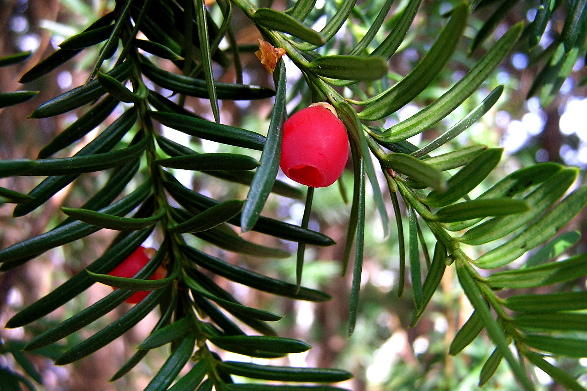 Yew Taxus sp.; cultivated, Boxborough, Massachusetts, USA